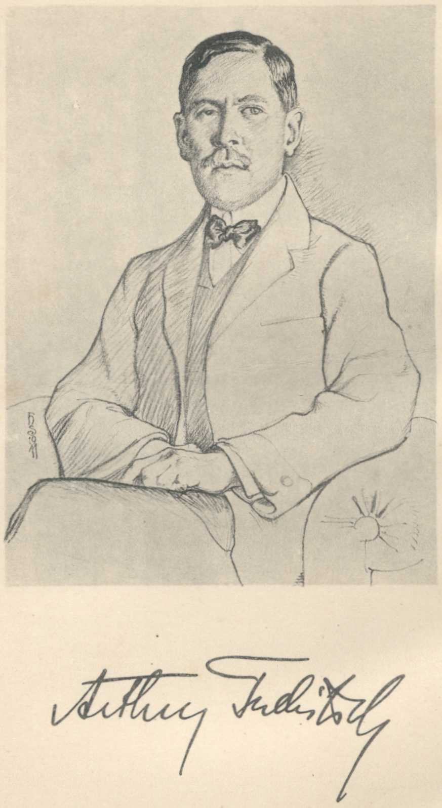 Arthur Trebitsch (1917).